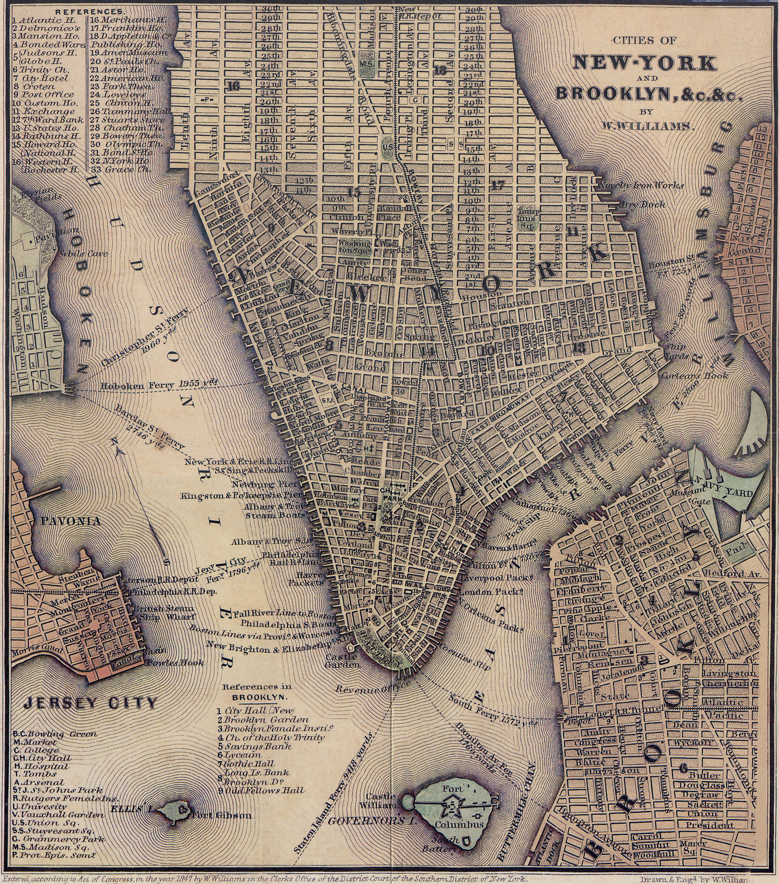 1847 map of Lower Manhattan, reproduced in Twelve Historical New York City Street and Transit Maps from 1860 to 1967.